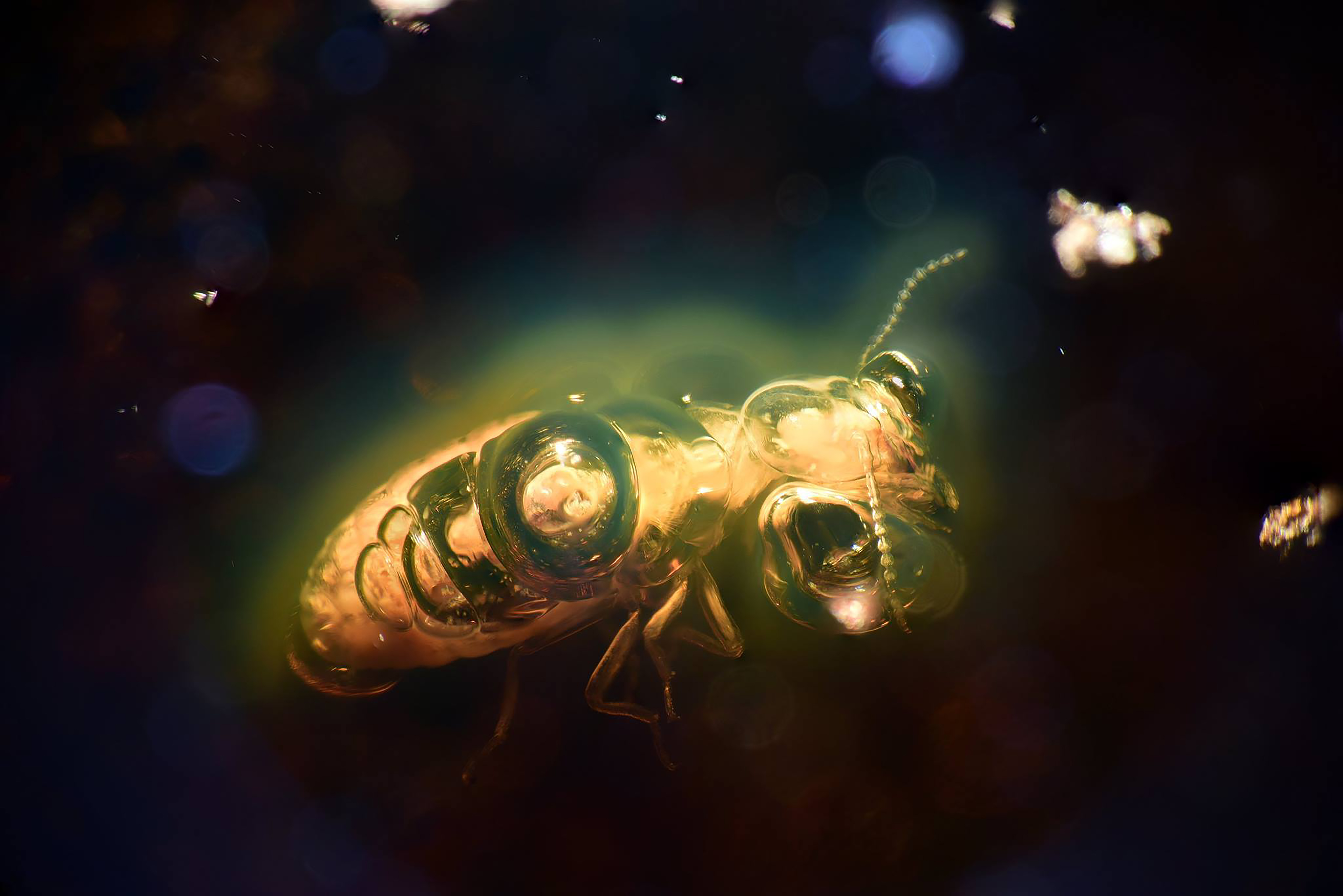 An insect being housed by the host material, Amber, has gas bubbles protruding from its thorax and head.